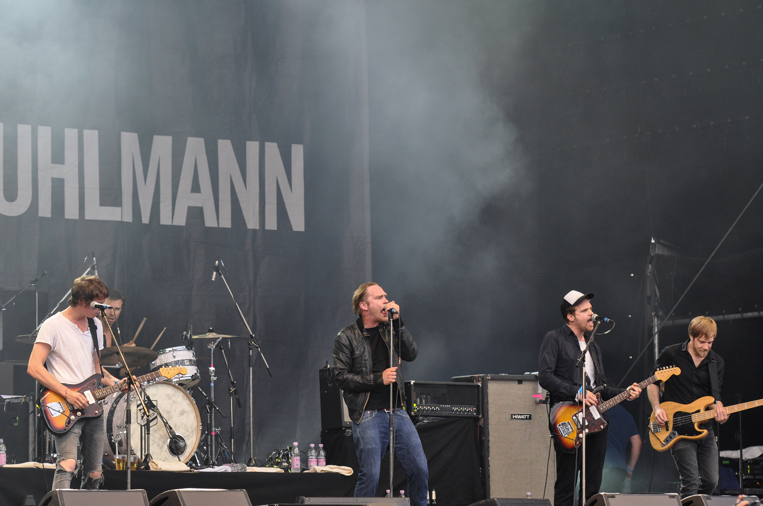 Katzenjammer performing at Greenville Festival 2013